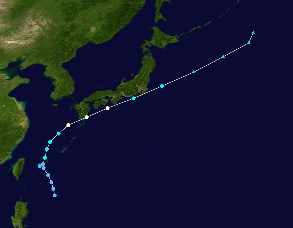 Typhoon Wayne 1989 track. Uses the color scheme from the Saffir-Simpson Hurricane Scale.